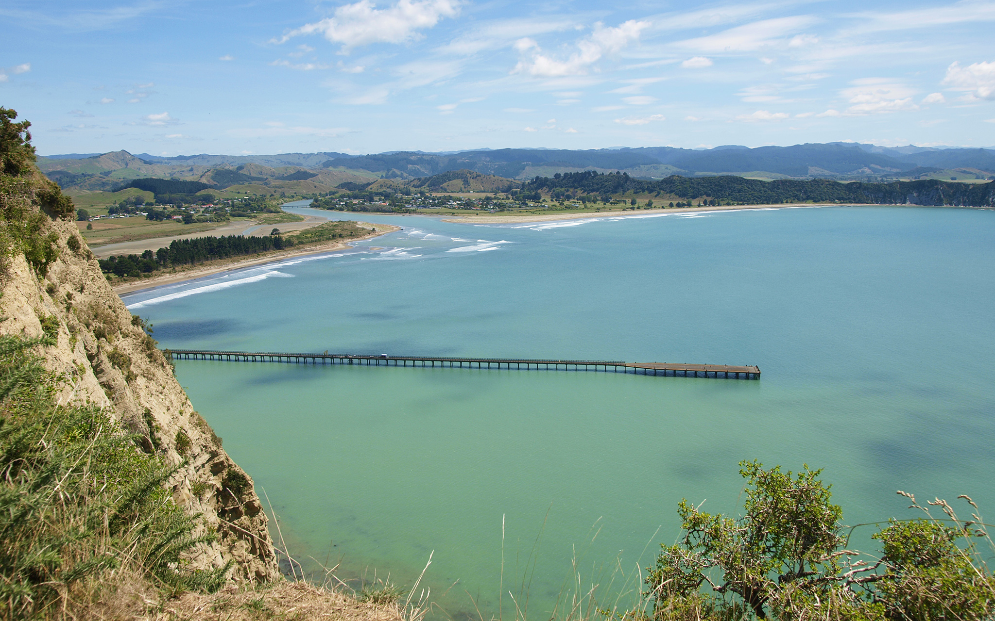 Tolaga Bay (bay and village) with Uawa River, Gisborne Region, New Zealand